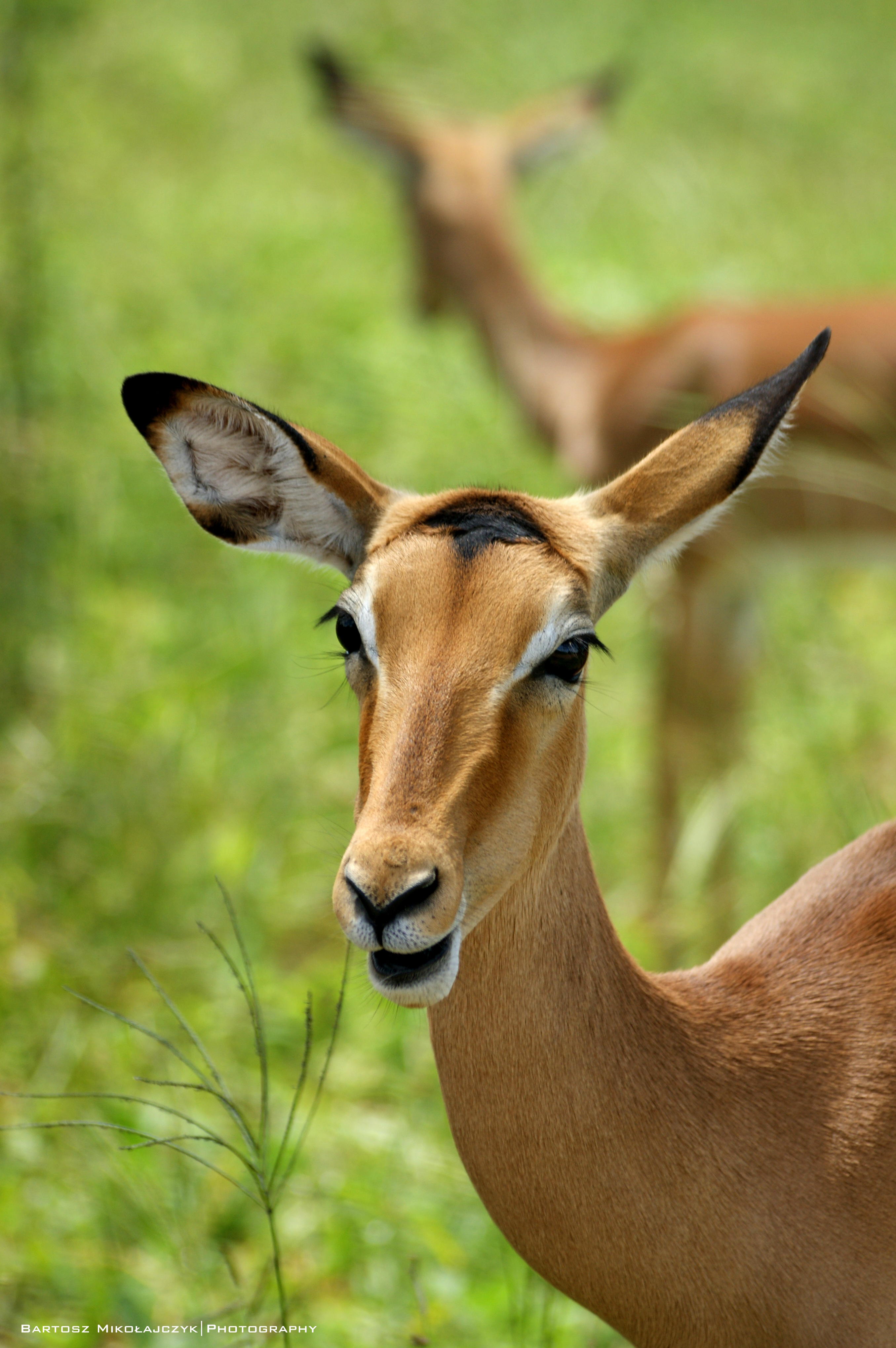 Female of Impala, Botswana (Chobe National Park) 2014